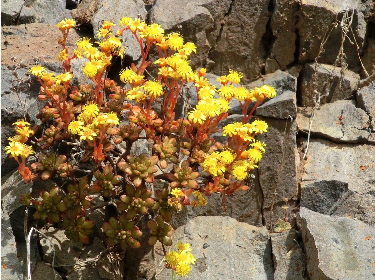 Aeonium sedifolium. NW Tenerife, Punta de Lerma (W of Punta del Fraile), rocks above coastal street, ca. 100 m above sea level.